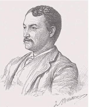 Portrait of Frank Millet/Francis Davis Millet by his contemporary, author and illustrator George Du Maurier, from Harper's New Monthly Magazine, June 1889